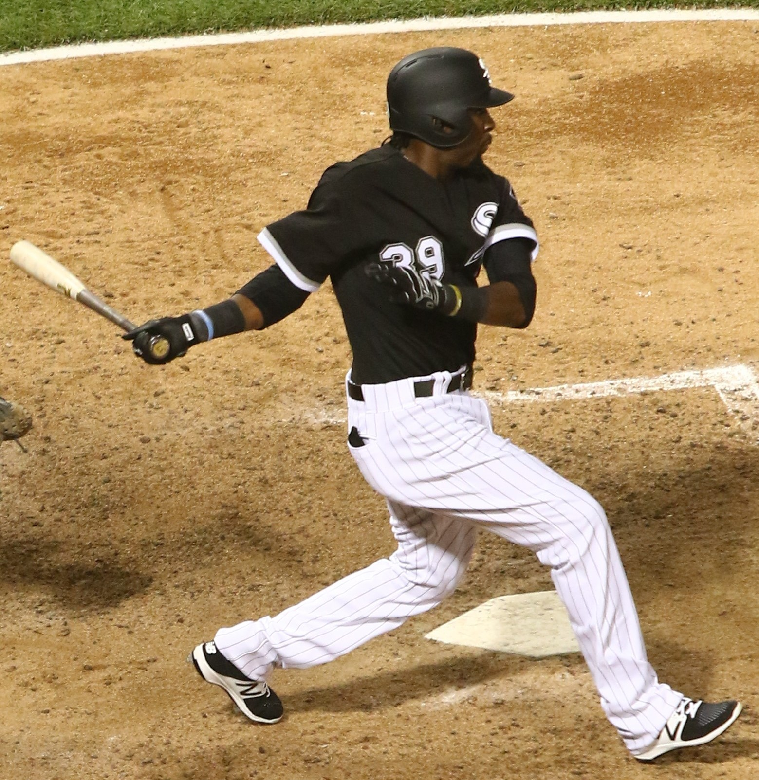 Alen Hanson for the 2017 Chicago White Sox